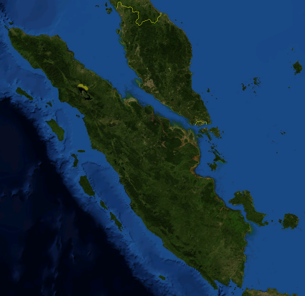 Possible distribution of Nepenthes junghuhnii.